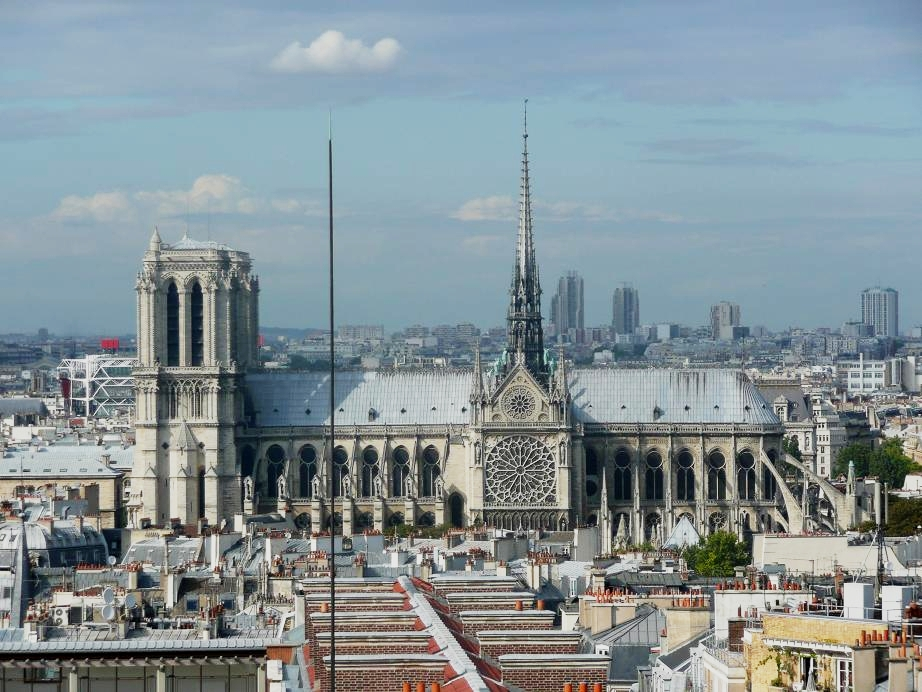 Cathedral Notre-Dame de Paris, south facade, view from the Panthéon